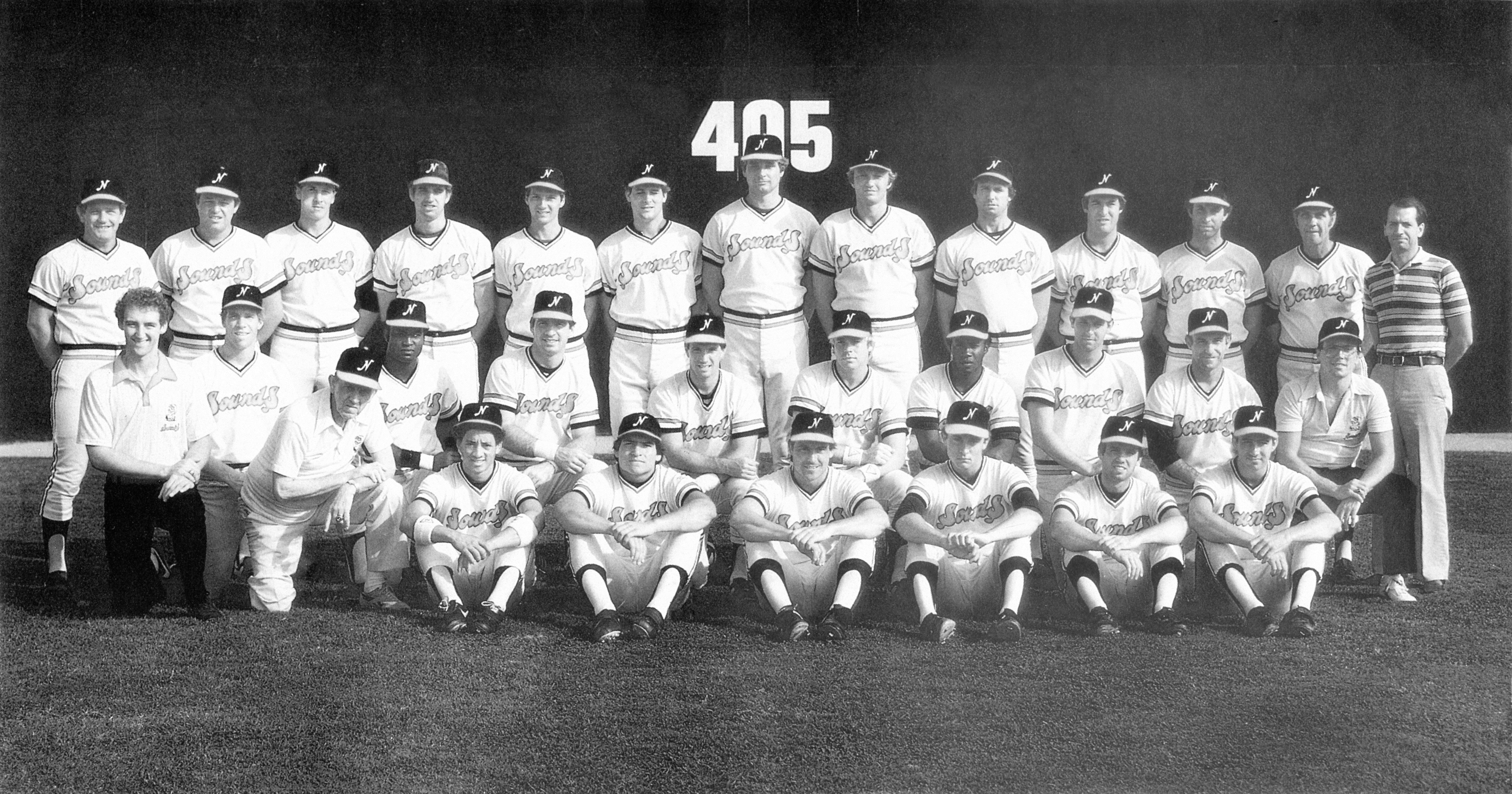 The 1982 Nashville Sounds Minor League Baseball team of the Southern League. Front row, left to right: Equipment Manager "Rags" Drennon, Rafael Villaman, Mark Salas, Erik Peterson, Guy Elston, Dan Schmitz, Ray Fontenot; Second row left to right: Clubhouse Manager Brian Fletcher, Rex Hudler, Nate Chapman, Pat Callahan, Brian Dayett, Buck Showalter, Tim Knight, Bob Sykes, Hitting Coach Ed Napoleon, Trainer Paul Grayner; Back row, left to right: Manager Johnny Oates, Mike Browning, Mat Winters, Brian Poldberg, Frank Ricci, Clay Christansen, Stefan Wever, Ben Callahan, Roger Slagle, Chris Lein, Garry Smith, Pitching Coach Hoyt Wilhelm, Radio Announcer Bob Jamison